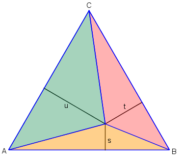 Viviani's theorem